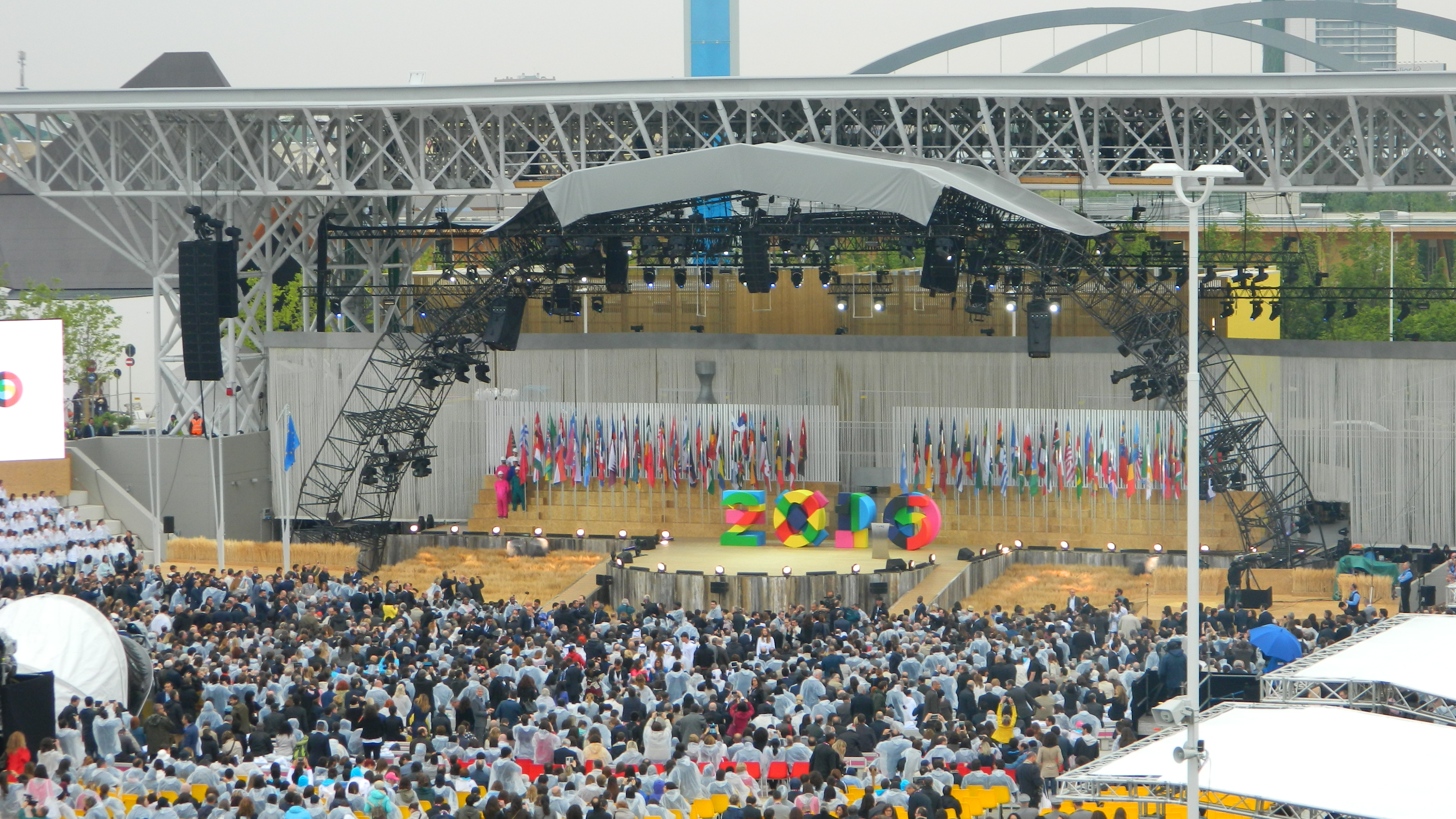 Expo 2015 Milano opening ceremony at Open Air Theatre